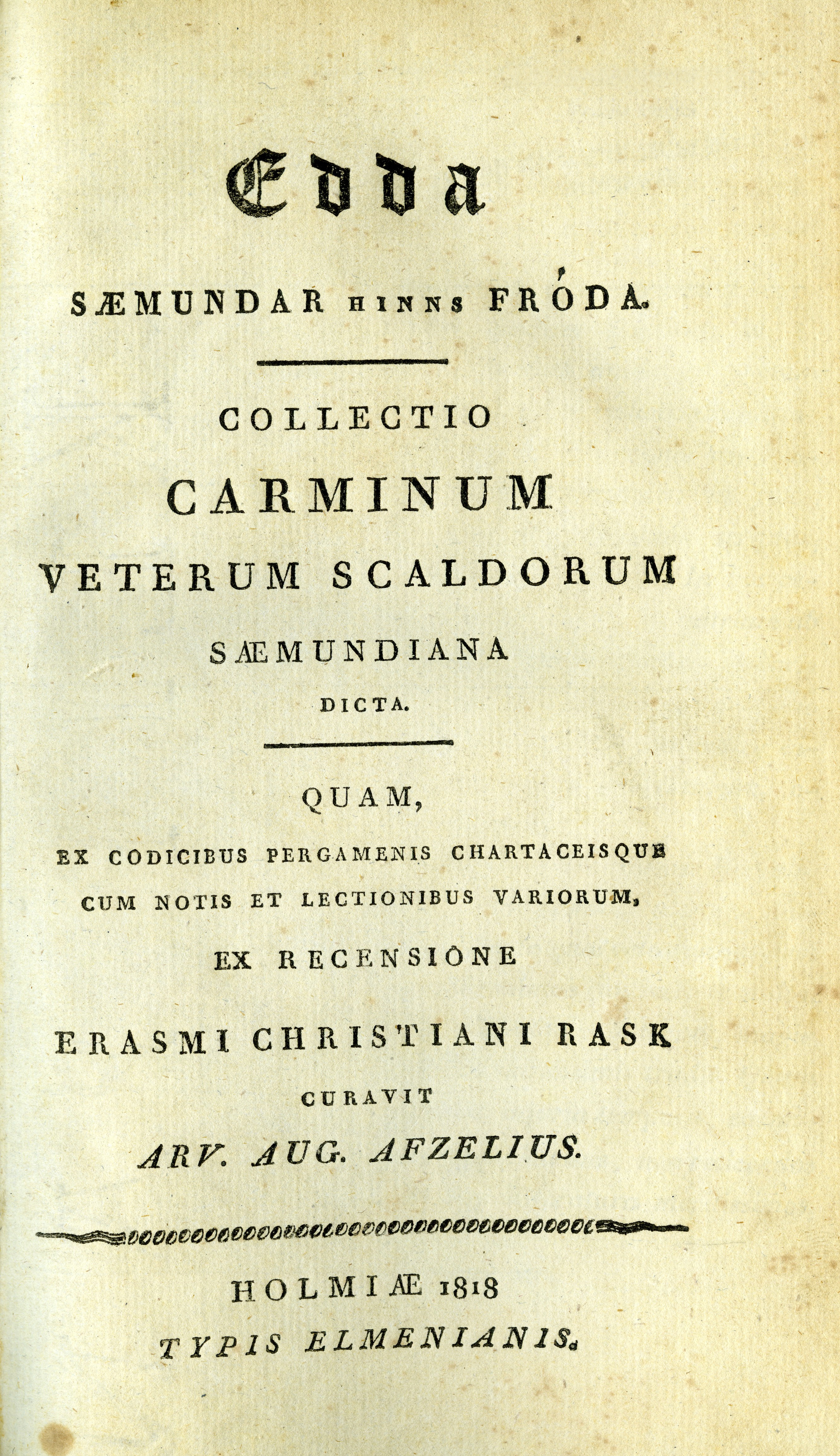 The title-page of Edda Sæmundar hins fróda published by Arvid August Afzelius in the year 1818. Printed in Stockholm in the year 1818. Edda Sæmundar is also called the Elder Edda or the Poetic Edda.